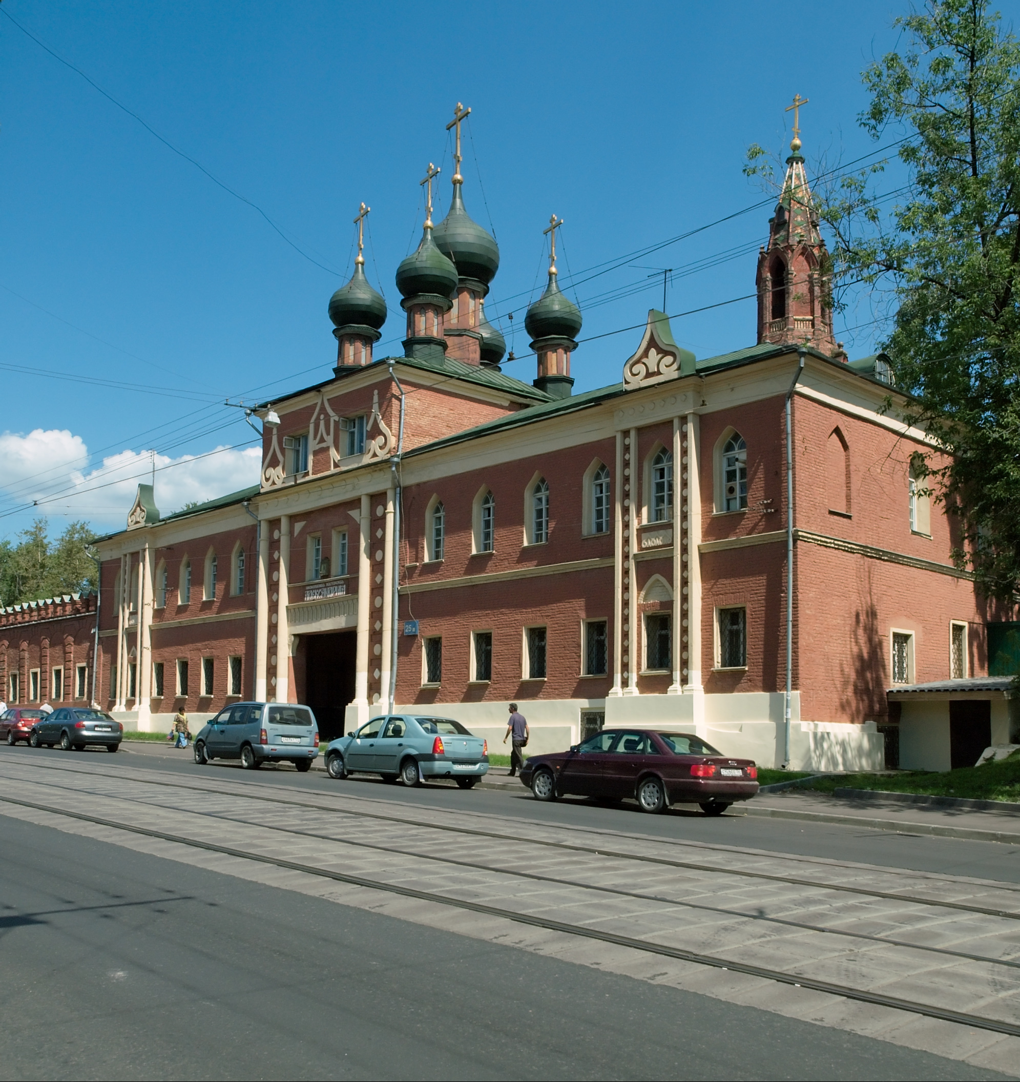 Entrance to St. Nicholas monastery, Moscow.